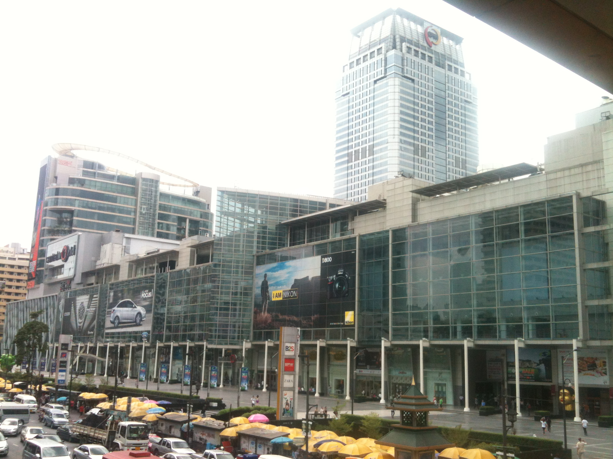 Glass Facade